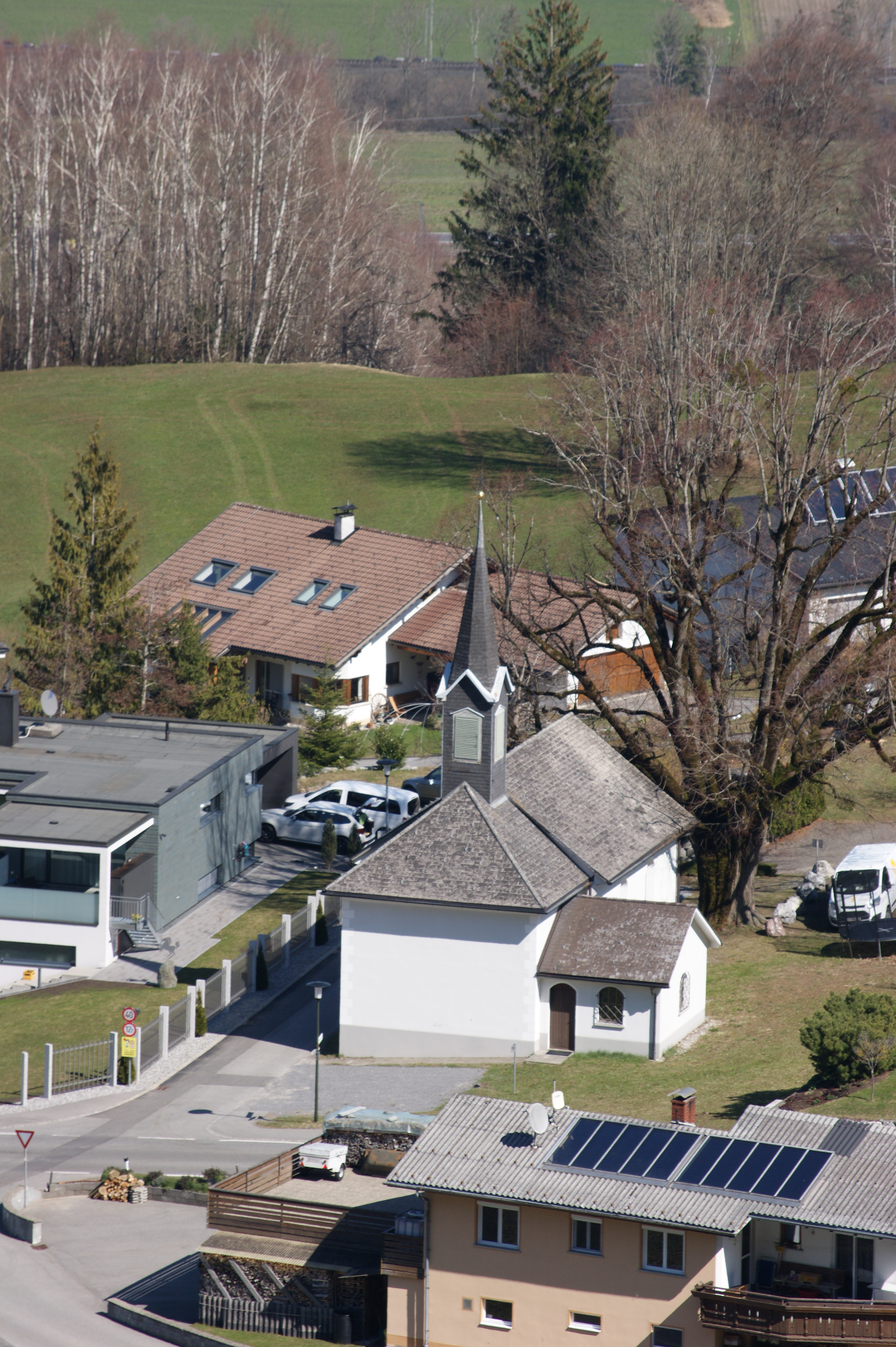 Chapel Maria Schnee in the hamlet Halden in Nenzing, Vorarlberg, Austria.